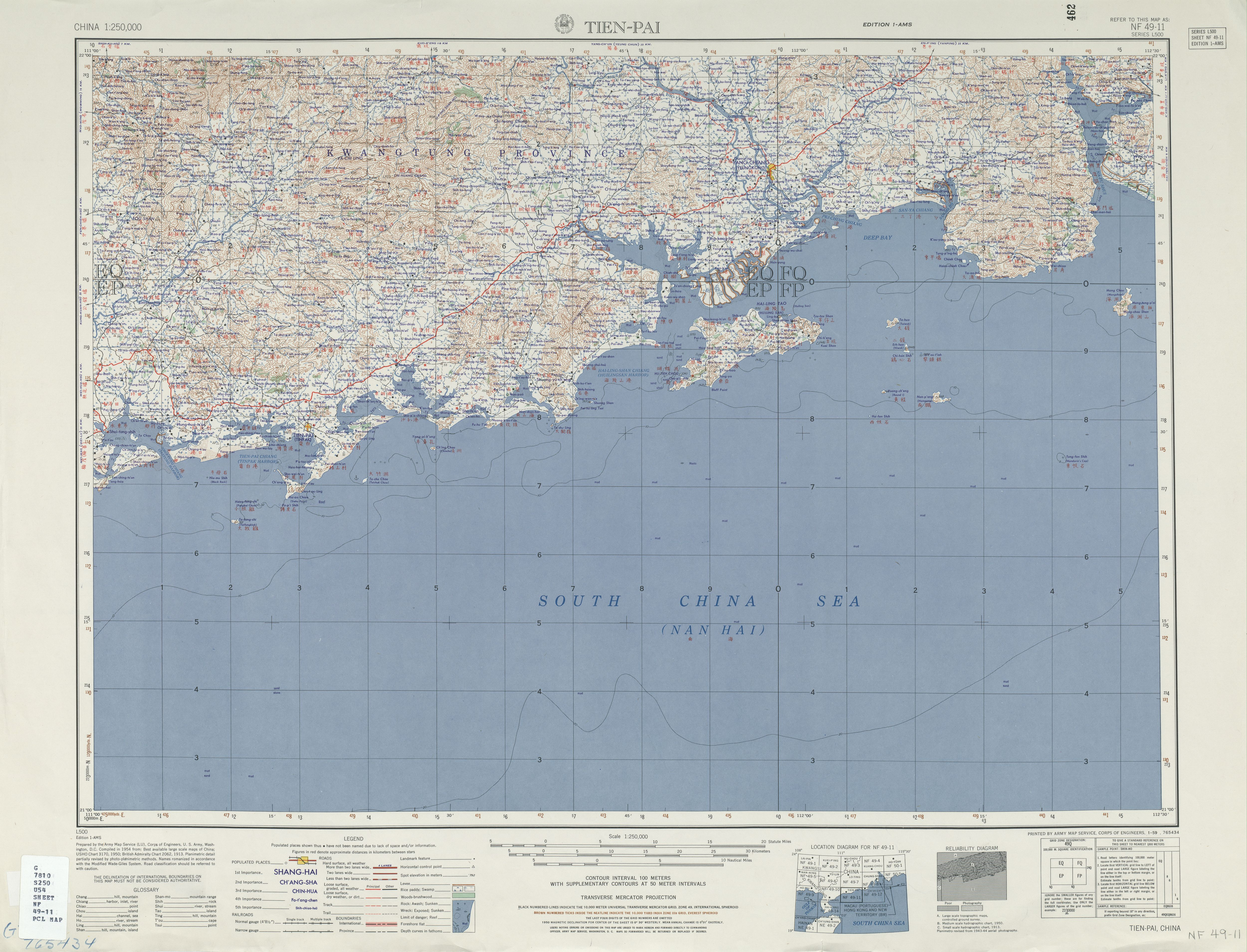 Map of Yangjiang (YANG-CHIANG, YEUNGKONG), Guangdong area